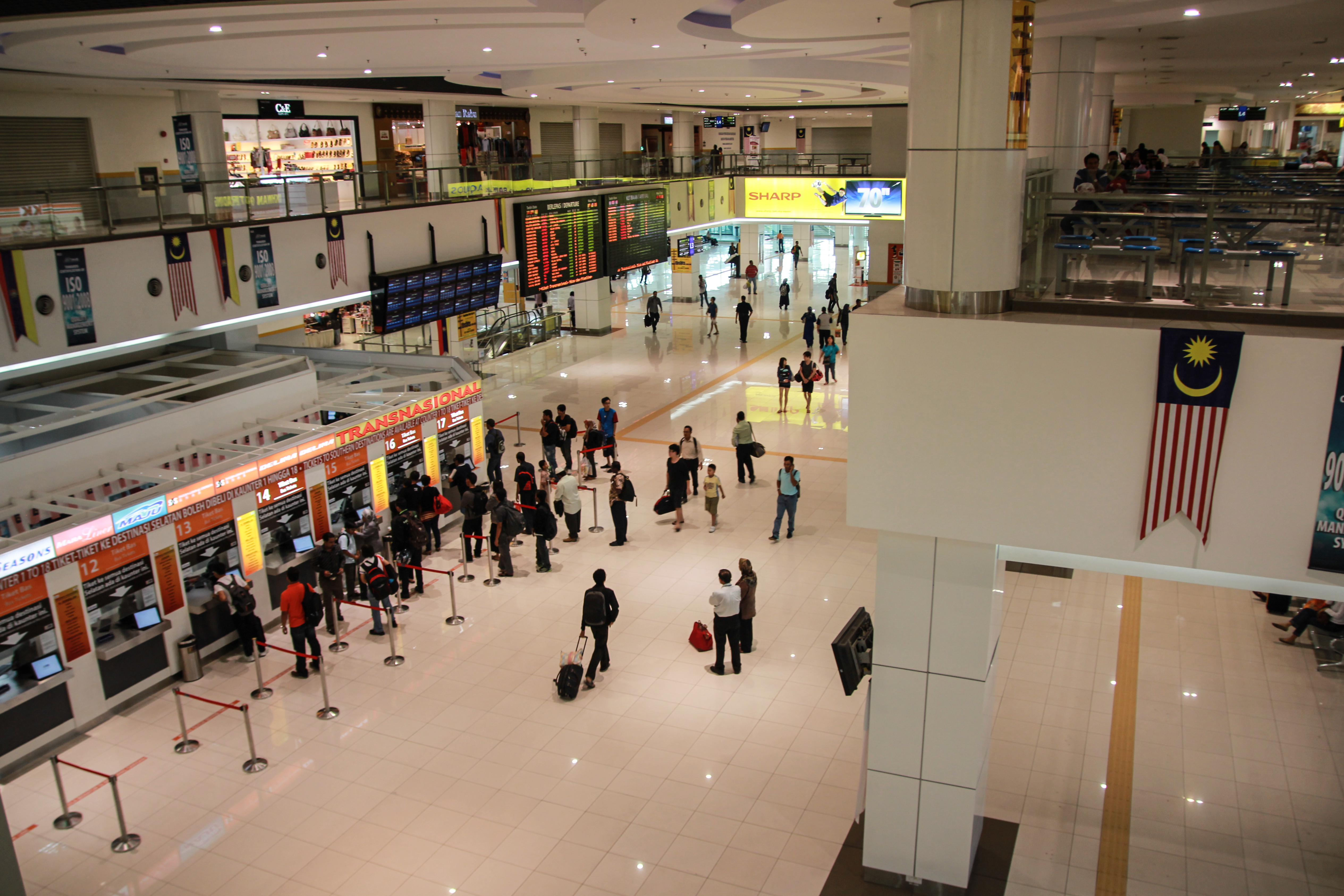 Terminal Bersepadu Selatan (TBS) in Bandar Tasik Selatan